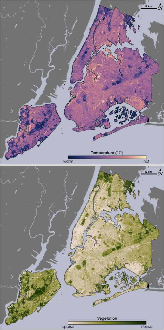 Thermal infrared satellite data measured by NASAâ€™s Landsat Enhanced Thematic Mapper Plus on August 14, 2002 one of the hottest days in New York City's summer. Landsat also collected vegetation data. Image from NASA EArth Observatory web page --Ryanjo 23:43, 1 August 2006 (UTC)